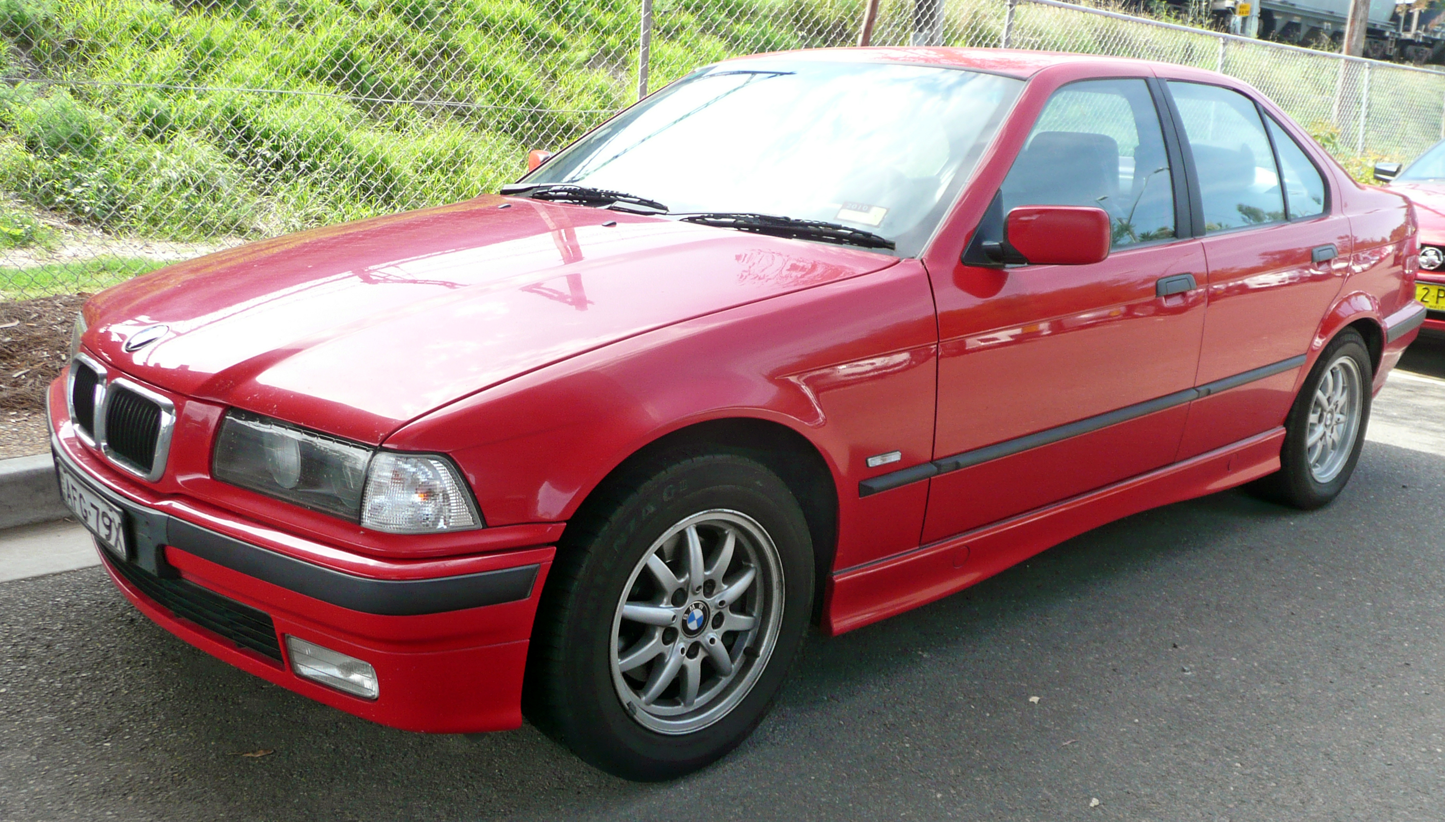 1997 BMW 323i (E36) sedan. Photographed in Sutherland, New South Wales, Australia.